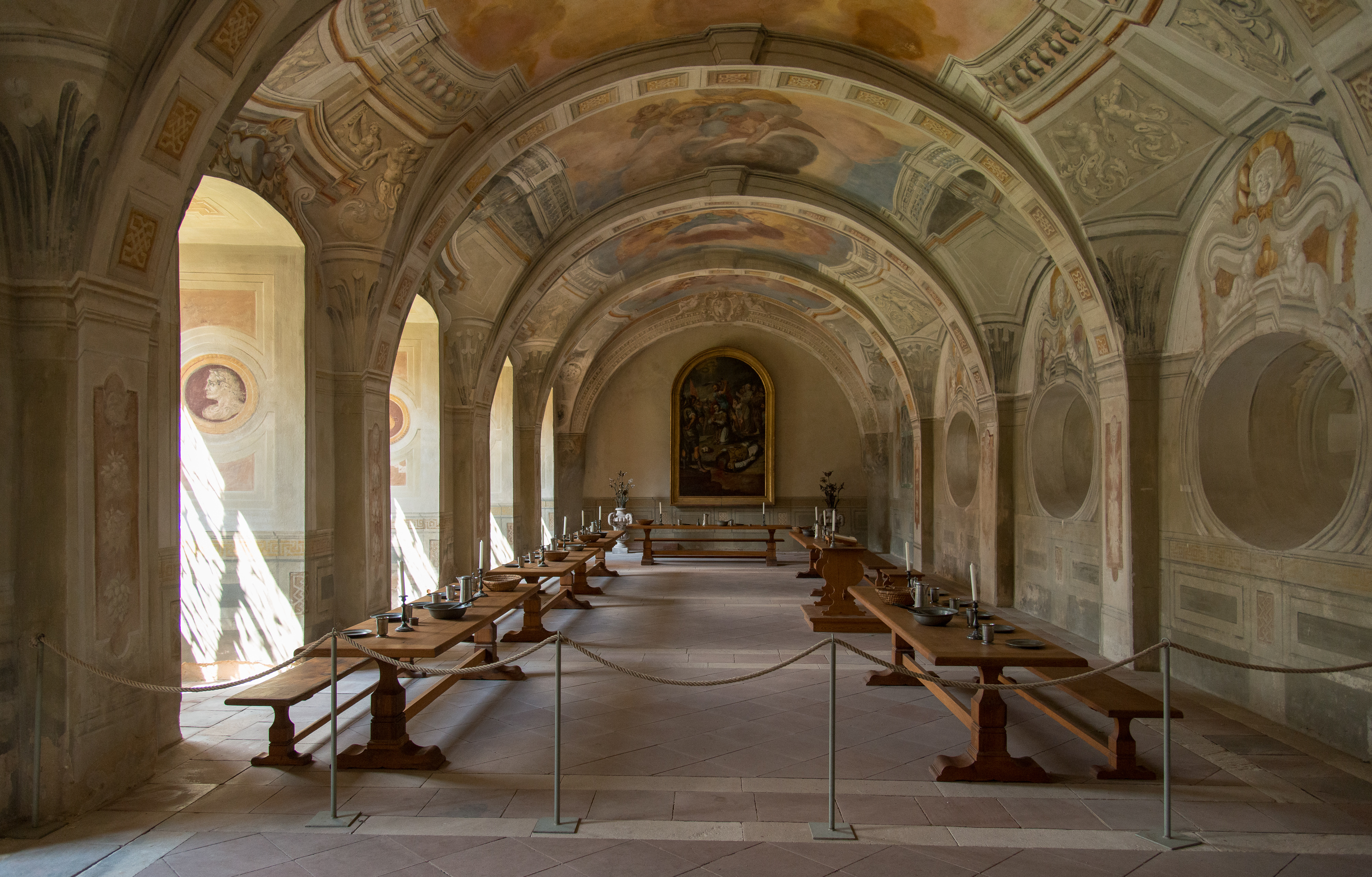 Seligenstadt, St. Marcellinus and Petrus, Summer Refectory.